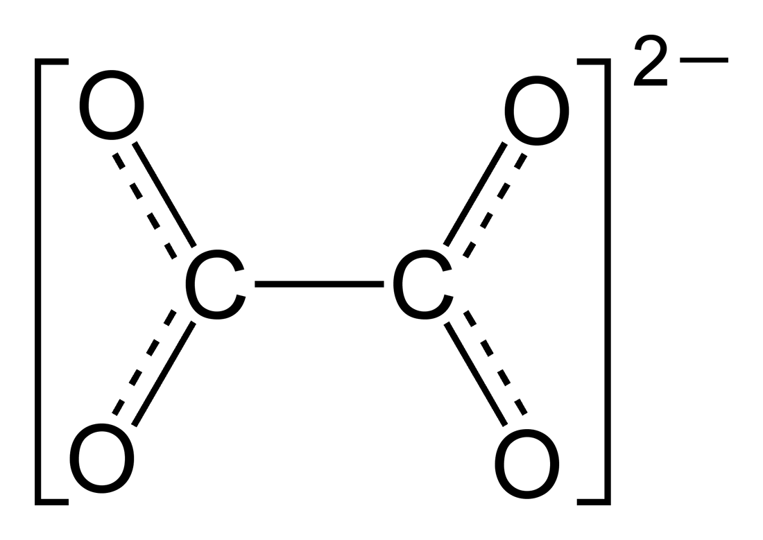 Oxalate anion, structural formula